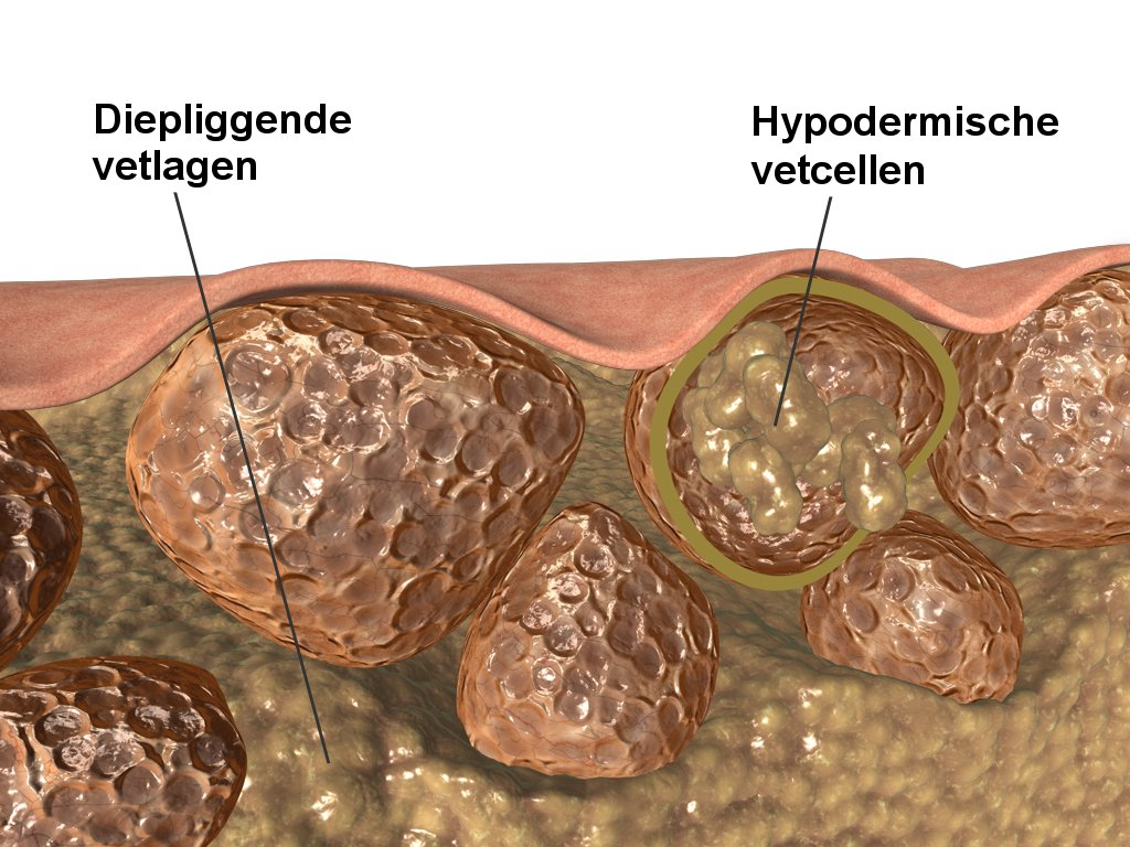 Cellulite (in Dutch)